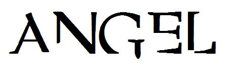 The intertitle of Angel made on Paint.